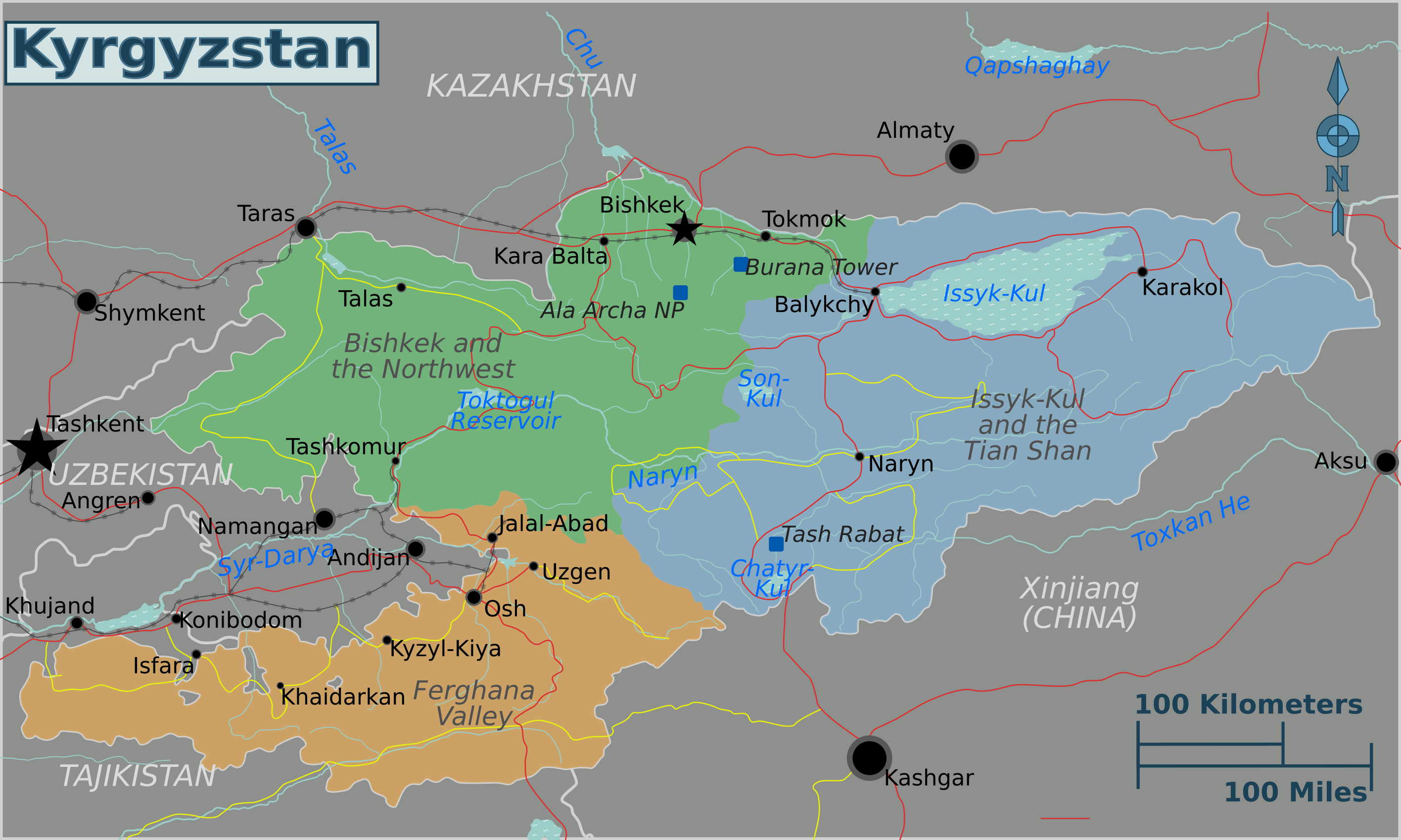 Kyrgyzstan regions map for use on Wikivoyage, English version